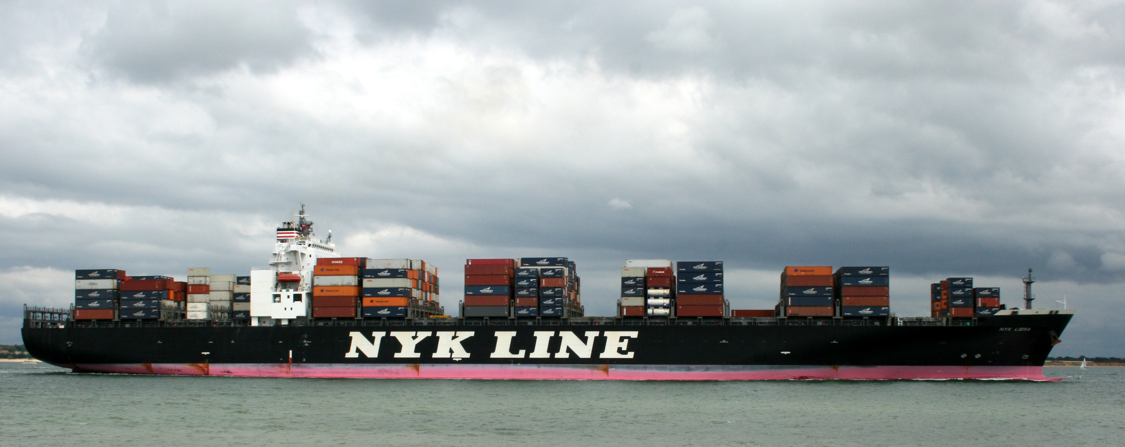 NYK Libra leaving Southampton Water, taken from Calshot Spit. IMO Number: 9229348 MMSI Number: 355087000 Callsign: HOJY Length: 299 m Beam: 40 m